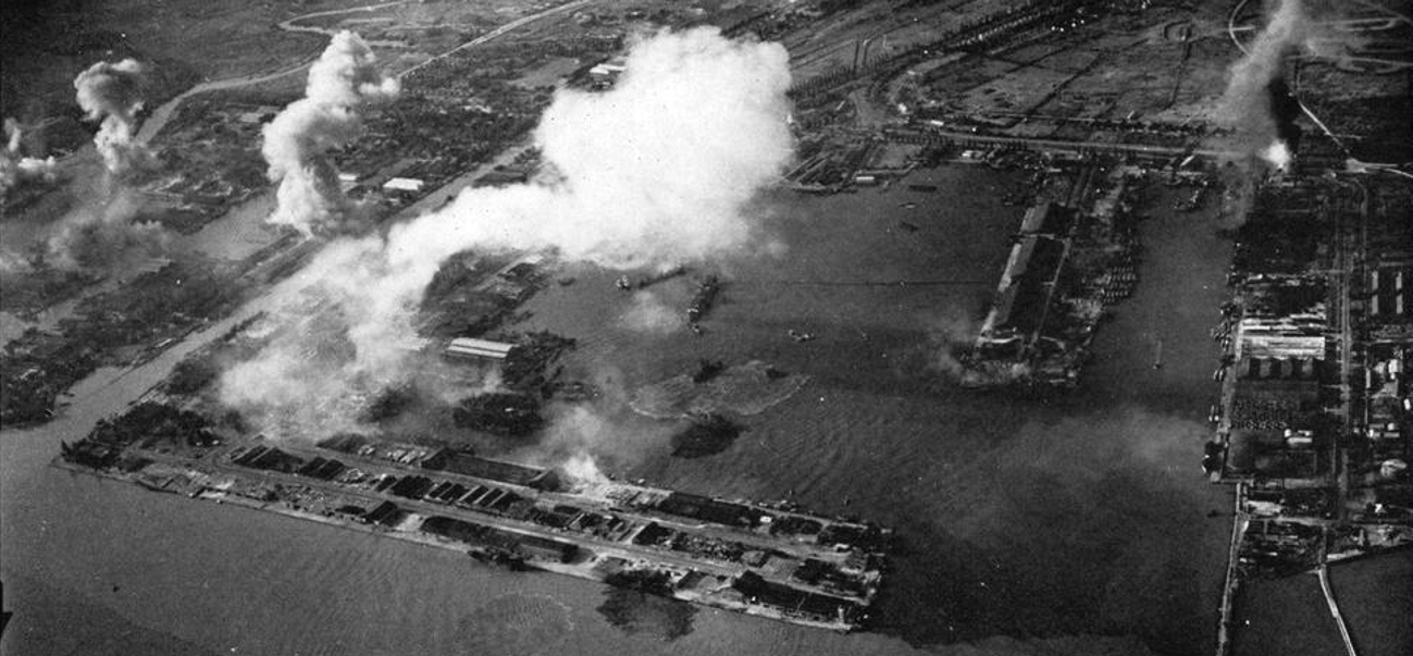 View of the attack on Surabaya, Netherlands East Indies, on 17 May 1944 by aircraft from the aircraft carriers USS Saratoga (CV-3) and HMS Illustrious (87) during "Operation Transom".